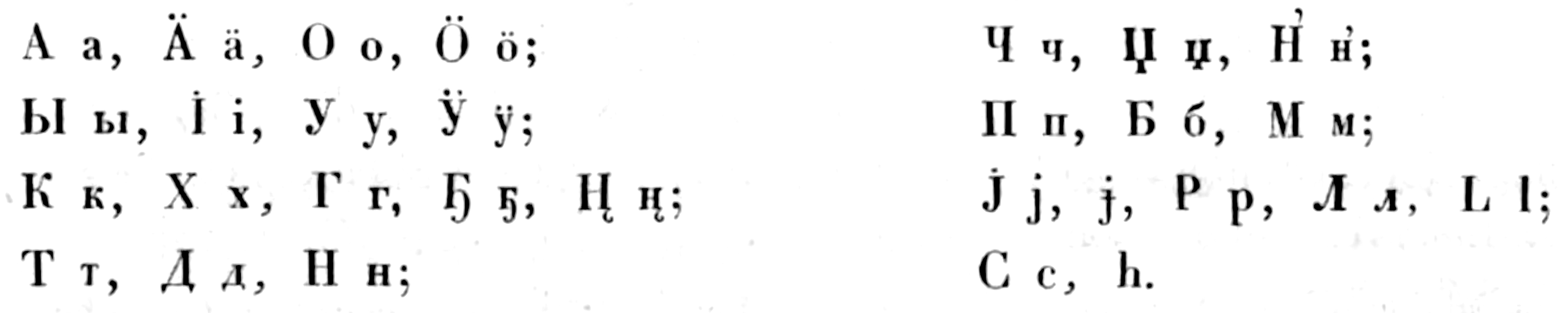 Crop from Von Böhtlingk 1851 showing his yakut alphabet. А а, Ӓ ӓ, О о, Ӧ ӧ; Ы ы, І і, У у, Ӱ ӱ; К к, Х х, Г г, Ҕ ҕ, Н̨ н̨; Т т, Д д, Н н; Ч ч, Џ џ, Н̛ н̛; П п, Б б, М м; Ј ј, ɉ, Р р, Л л, L l; С с, һ.